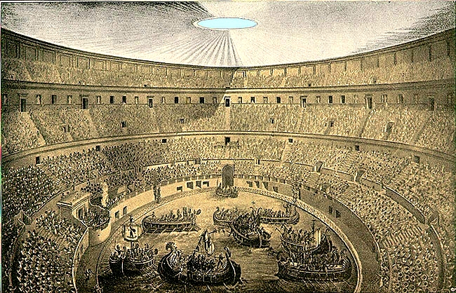 Reconstruction drawing of Colosseum with naumachia (Nispi-Landi).